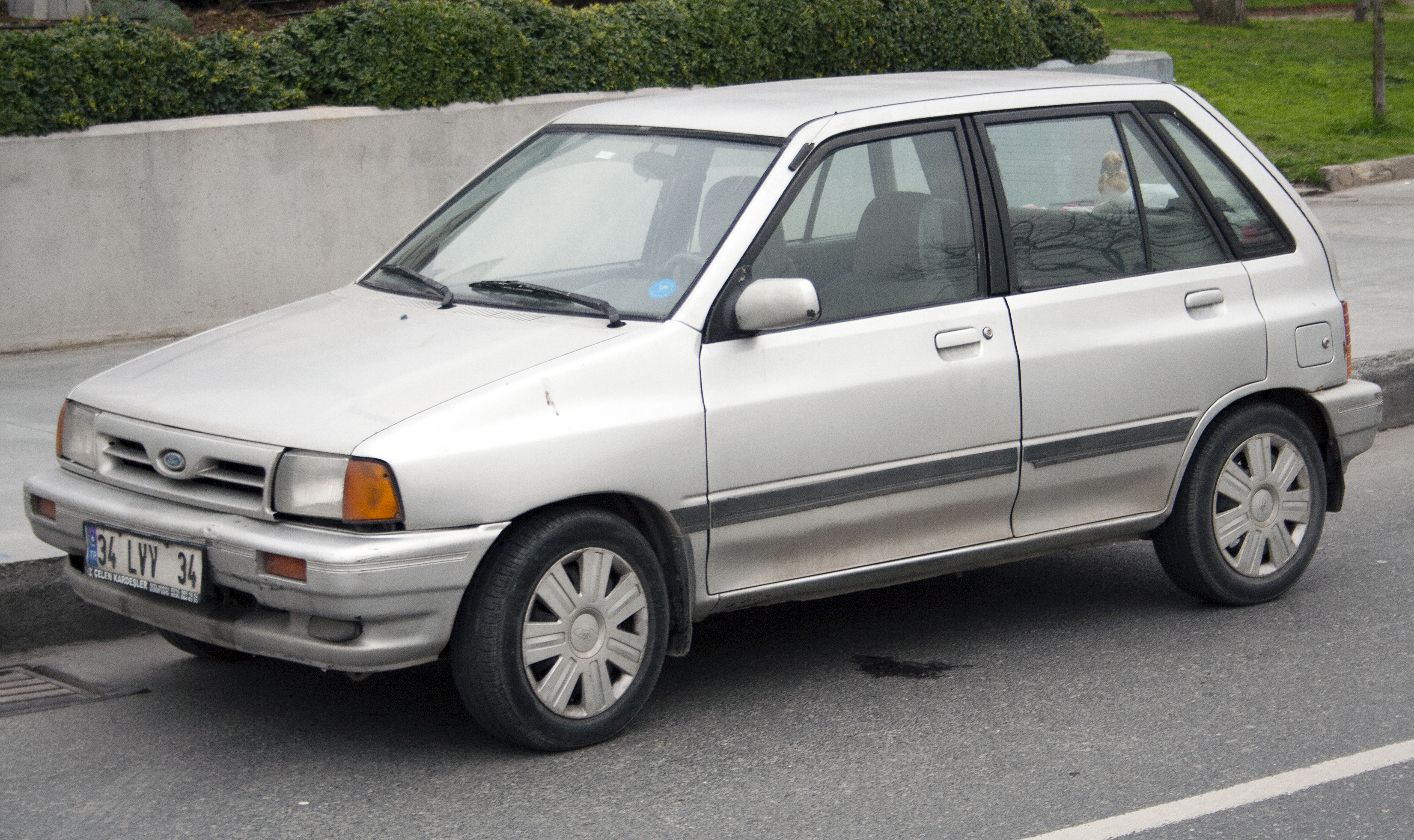 Ford Festiva five-door in Üsküdar, Istanbul. I didn't know the Festiva had been marketed as such outside of Japan, the US, and Australia.